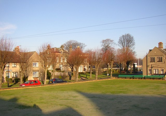 Bowling Green, Westfield Memorial Village, Lancaster The Westfield Club is in the background, probably not part of the Memorial Village, but conveniently near to it.